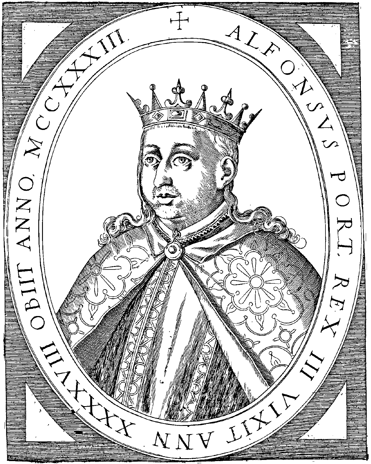 D. Afonso II, King of Portugal